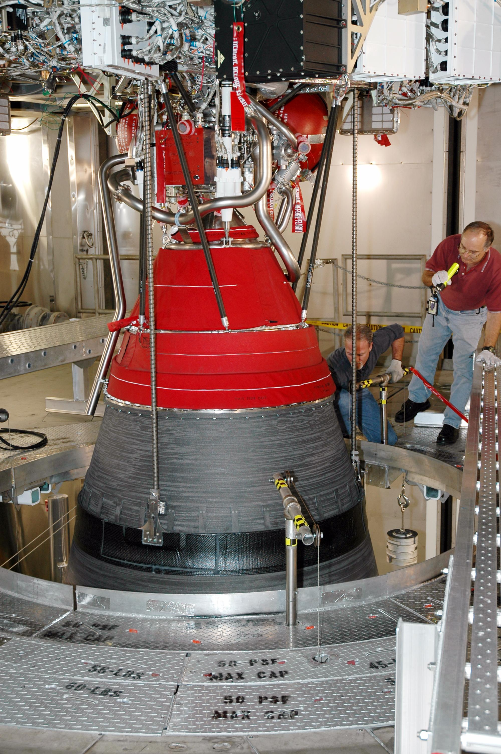 At the Delta Operations Center on Cape Canaveral Air Force Station, Fla., a technician monitors the Boeing Delta IV second stage RL10B-2 engine nozzle extension during testing. The Delta IV is the launch vehicle for the GOES-N satellite. The Delta IV is the launch vehicle for GOES-N satellite. Geostationary Operational Environmental Satellites (GOES) are sponsored by the National Aeronautics and Space Administration (NASA) and the National Oceanic and Atmospheric Administration (NOAA). GOES-N is the first in the next series of GOES satellites, N-P. The multi-mission GOES series N-P will be a vital contributor to weather, solar and space operations and science. The GOES N-P series will aid activities ranging from severe storm warnings to resource management and advances in science. GOES-N is scheduled to launch May 4 from Cape Canaveral Air Force Station, Fla.